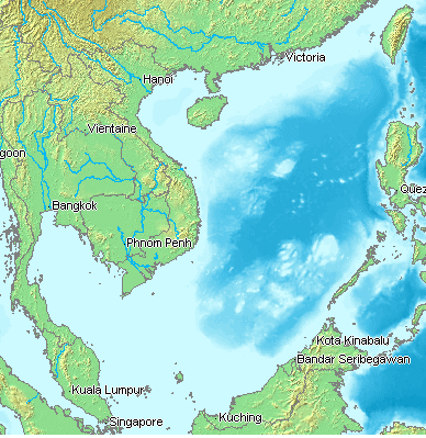 Map of the east Vietnam sea, more commonly known as south China sea.